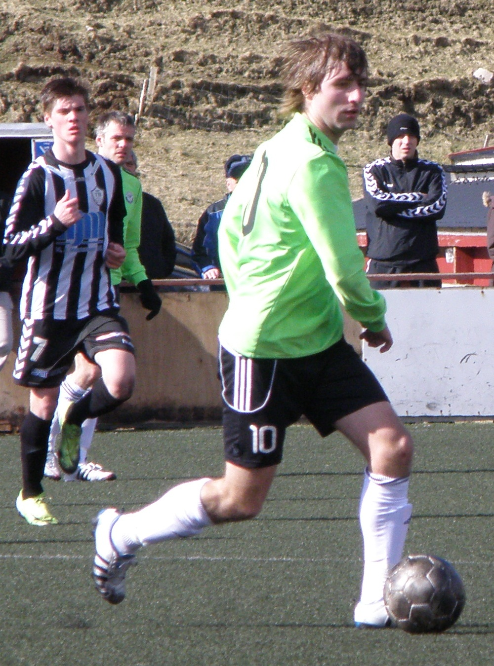 Róaldur Jacobsen is a Faroese football player, midfielder, who currently plays for B36 Tórshavn (2012). He has also played for the U21, U19 and U17 national teams of the Faroe Islands. The player in black and white behind him is Rógvi Joensen from TB Tvøroyri. Føroyskt: Róaldur Jacobsen er ein føroyskur fótbóltsleikari, ein miðvalleikari, sum í løtuni (2012) spælir við B36. Hann hevur eisini spælt á U21, U19 og U17 landsliðunum hjá Føroyum. TB leikarin aftanfyri hann er Rógvi Joensen. B36 vann henda dystin 4-1. Teir spældu í útibúnanum, sum er grønur.